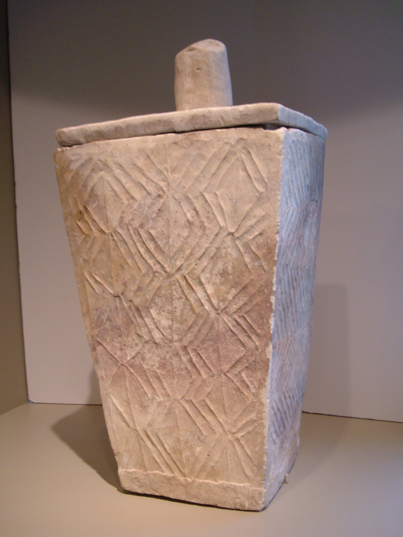 Limestone burial urn from Cotabato Province, Mindanao, the Philippines, dated approximately 600 for storing the bones of the deceased after decomposition of the bodies. On display at the Asian Art Museum in San Francisco, California. Object ID: 1991.323.2